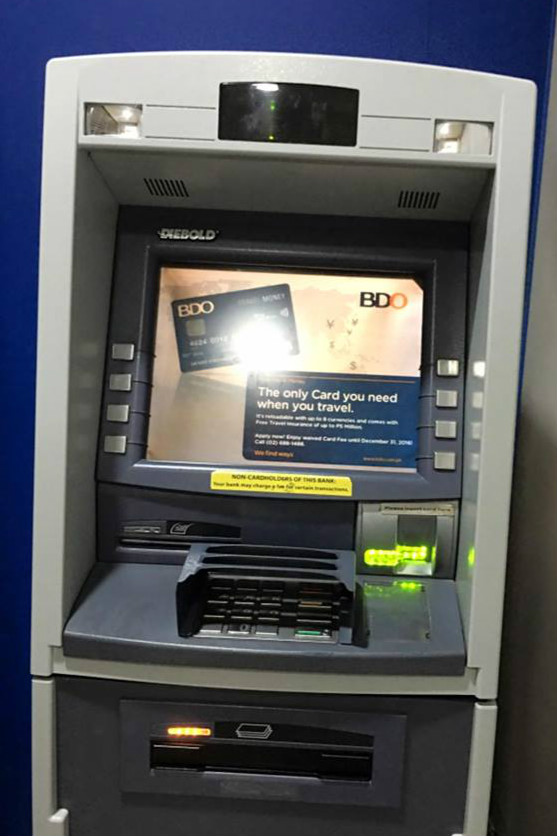 A BDO ATM in a branch in Los Banos, Laguna